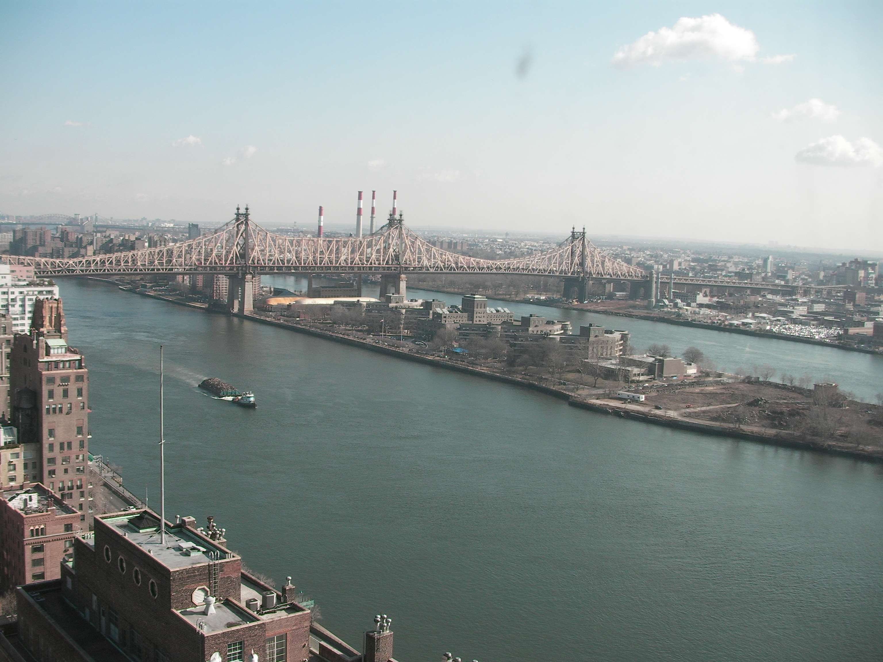 View of Roosevelt Island and Queensboro Bridge, New York City, viewed from 31st floor of 49th Street